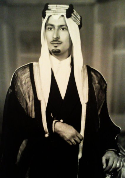 saad bin abul aziz al saud member of house of saud